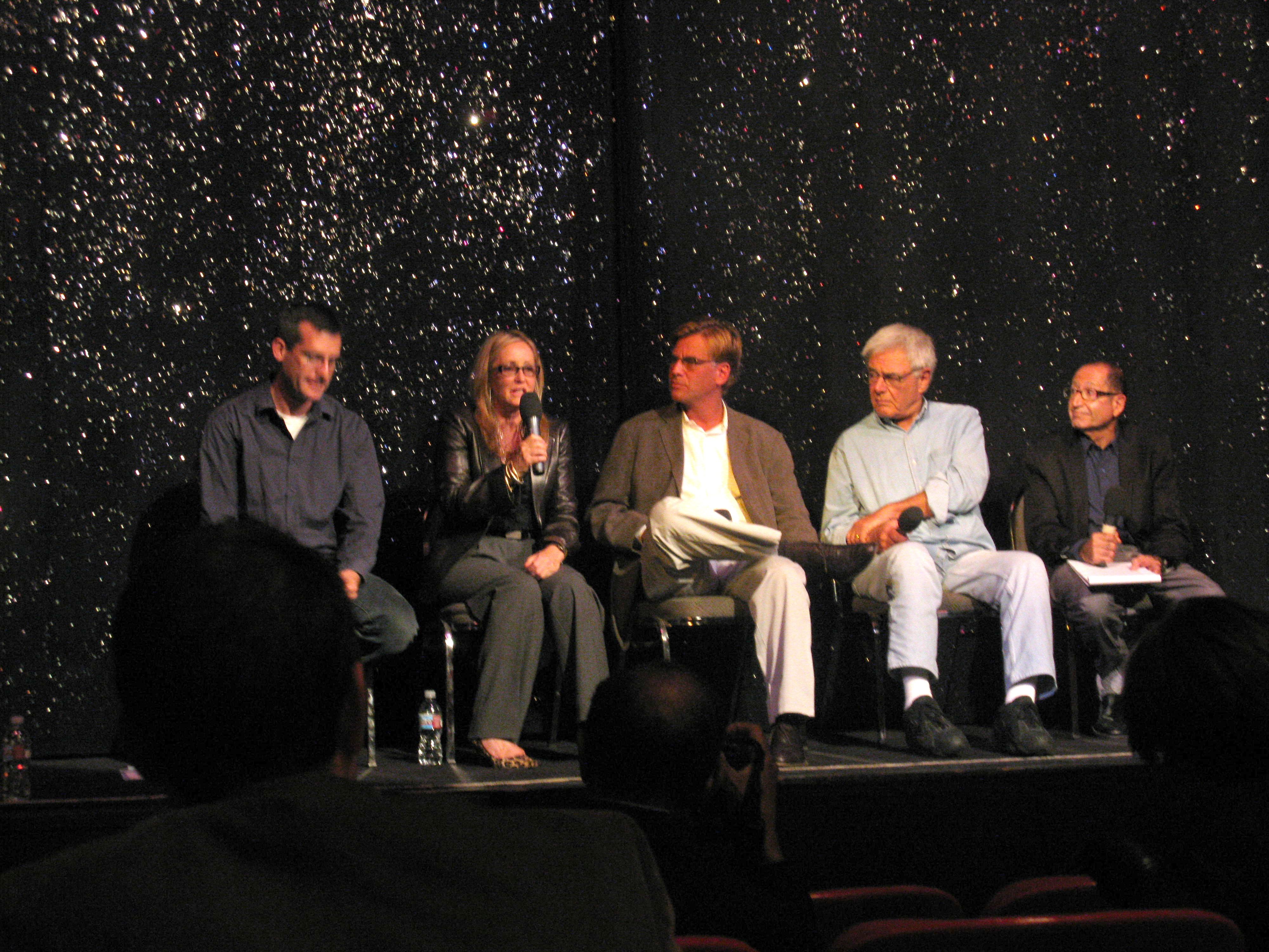 Aaron Sorkin speaking at a Generation Obama event by Victoria Bernal. There was a screening of "Mr. Smith Goes to Washington"; and the following panel session featuring a mix of Hollywood and politics.